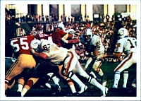 A football card from the 1986 Jeno's Pizza NFL football card stickers set of Miami Dolphins running back Jim Kiick rushing the ball against the Washington Redskins in Super Bowl VII. The card is numbered #33 in the set. The back of the card reads: IT WAS THE END OF A PERFECT SEASON Miami running back Jim Kiick follows guard Bob Kuechenberg (67) through a big hole, as the Dolphins beat Washington in Super Bowl VII. Miami's 14-7 victory over the Redskins completed the only perfect-record season in NFL history. Don Shula's team finished 17-0.